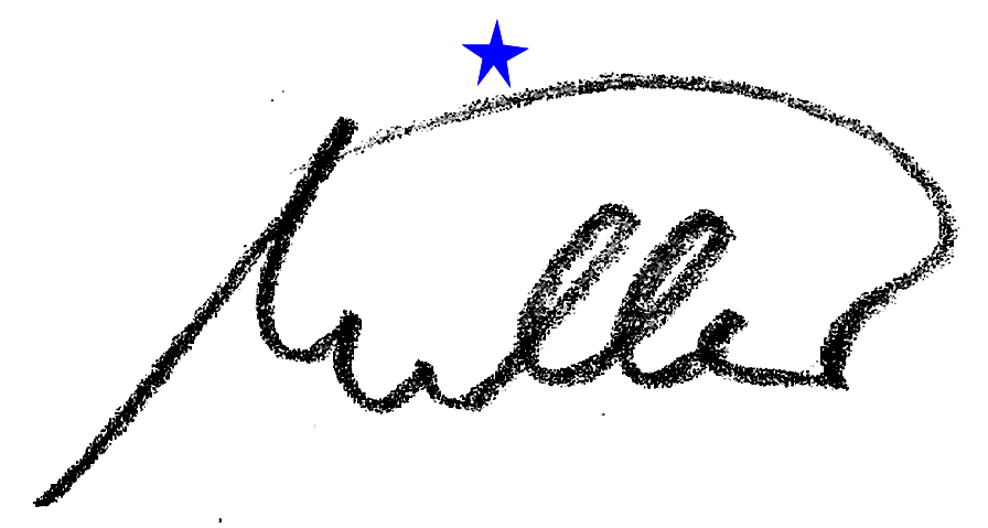 Deviations back, traverses, deletions